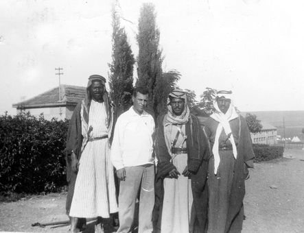 1934,Three Bedouin and a Jewish man in Beit Alpha